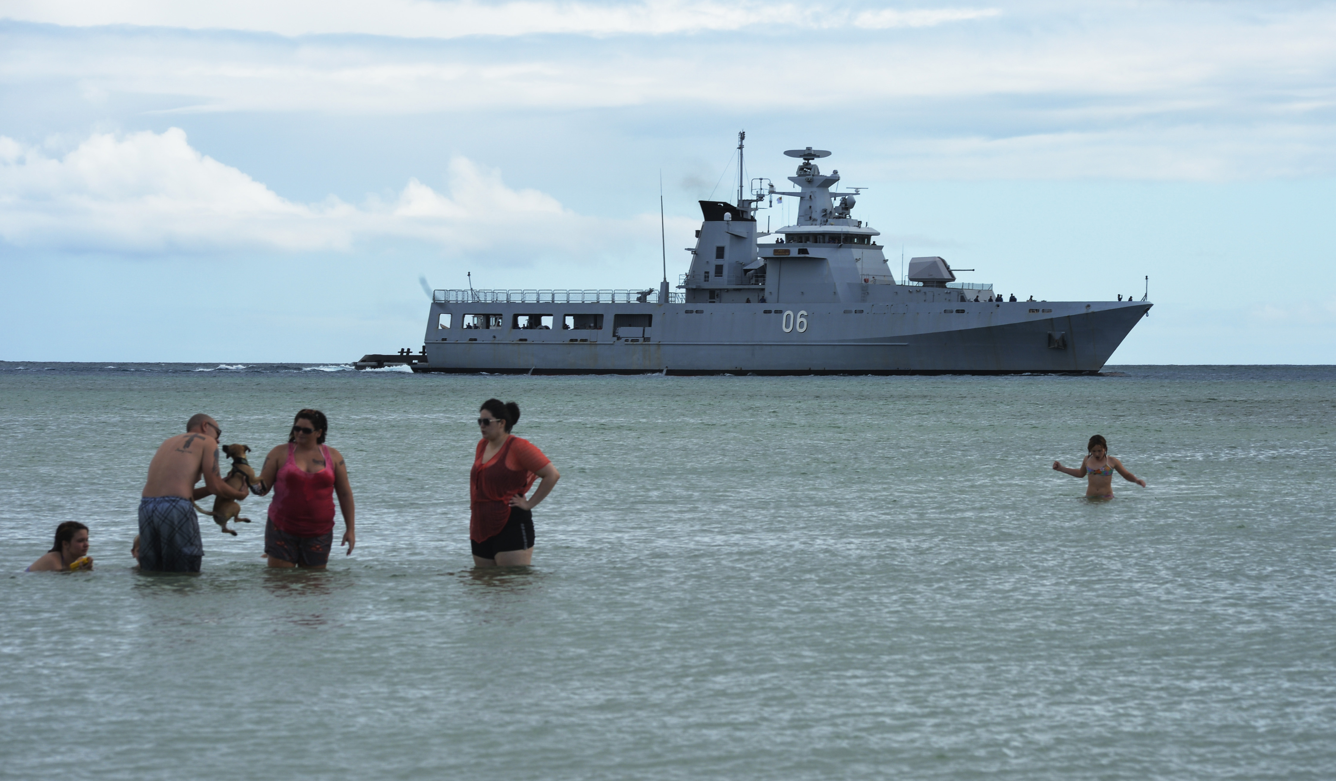 A family swims as the Royal Brunei Navy offshore patrol vessel KDB Darussalam (OPV 06) arrives at Joint Base Pearl Harbor-Hickam, Hawaii, June 24, 2014, before participating in Rim of the Pacific (RIMPAC) 2014. RIMPAC is a U.S. Pacific Command-hosted biennial multinational maritime exercise designed to foster and sustain international cooperation on the security of the world's oceans. (U.S. Navy photo by Mass Communication Specialist 2nd Class Laurie Dexter/Released)